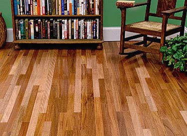 crabwood